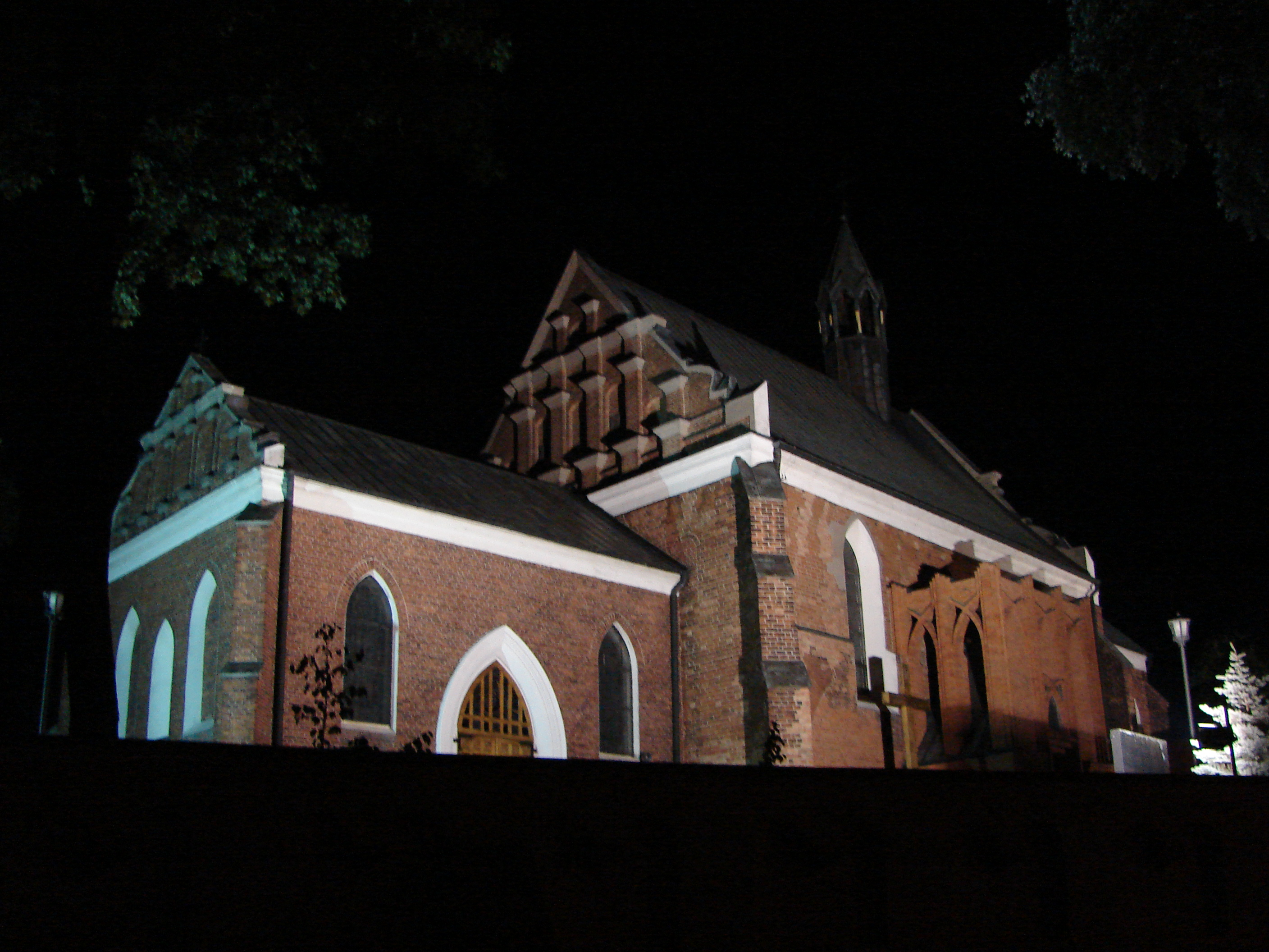 Izbica Kujawska, Poland, Virgin Mary's church, XV century.